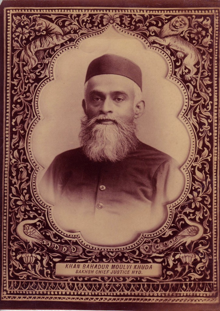 Maulvi Khuda Bakhsh, the Nizam's Chief Justice, in a formal photo, c.1880 Source: ebay, July 2008